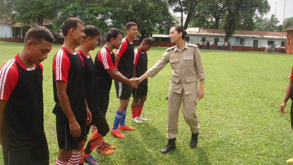 Sanjukta humble person